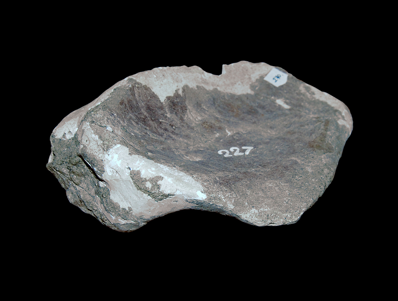 Coracoid of Magyarosaurus, Deva Natural History Museum.